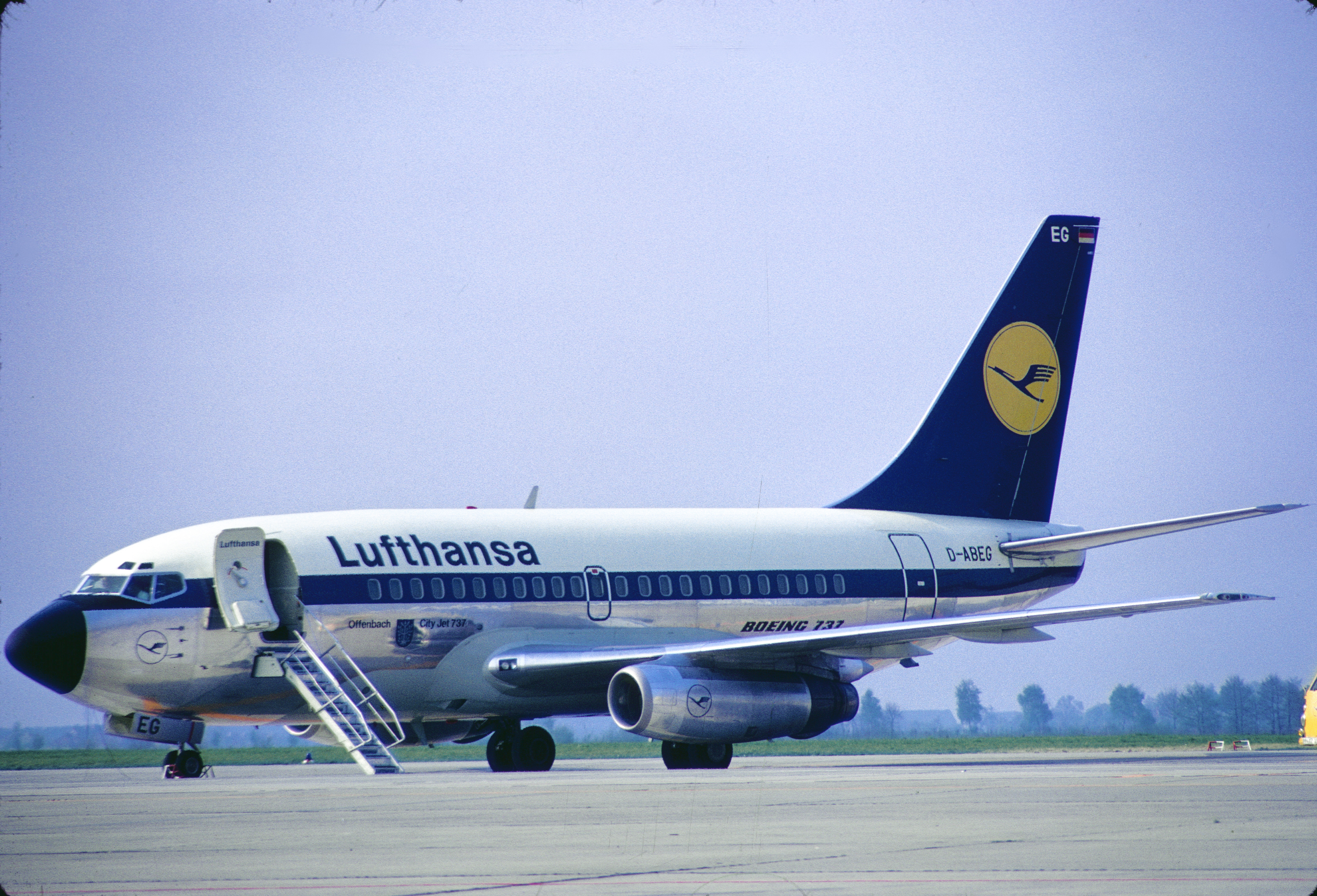 The 9th 737, originally delivered to Lufthansa as D-ABEG, 'Offenbach'... scan from a 42-year-old Kodak slide... First flight: March 2, 1968... 13/03/1968 Lufthansa D-ABEG 30/05/1981 People Express N401PE 01/02/1987 Continental Airlines N401PE 01/07/1990 Continental Airlines N16201